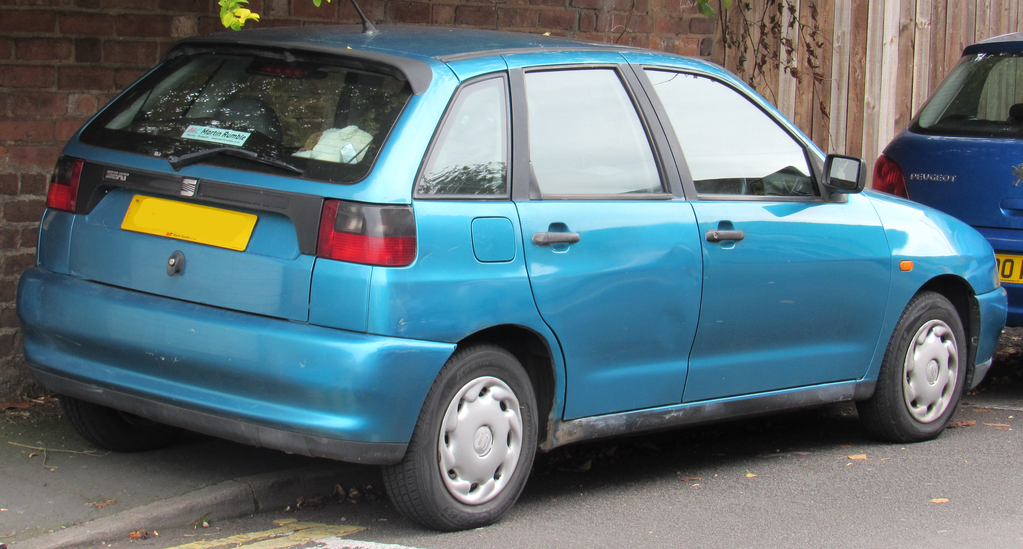 1997 SEAT Ibiza SXE 1.4 facelift Rear Taken in Leamington Spa